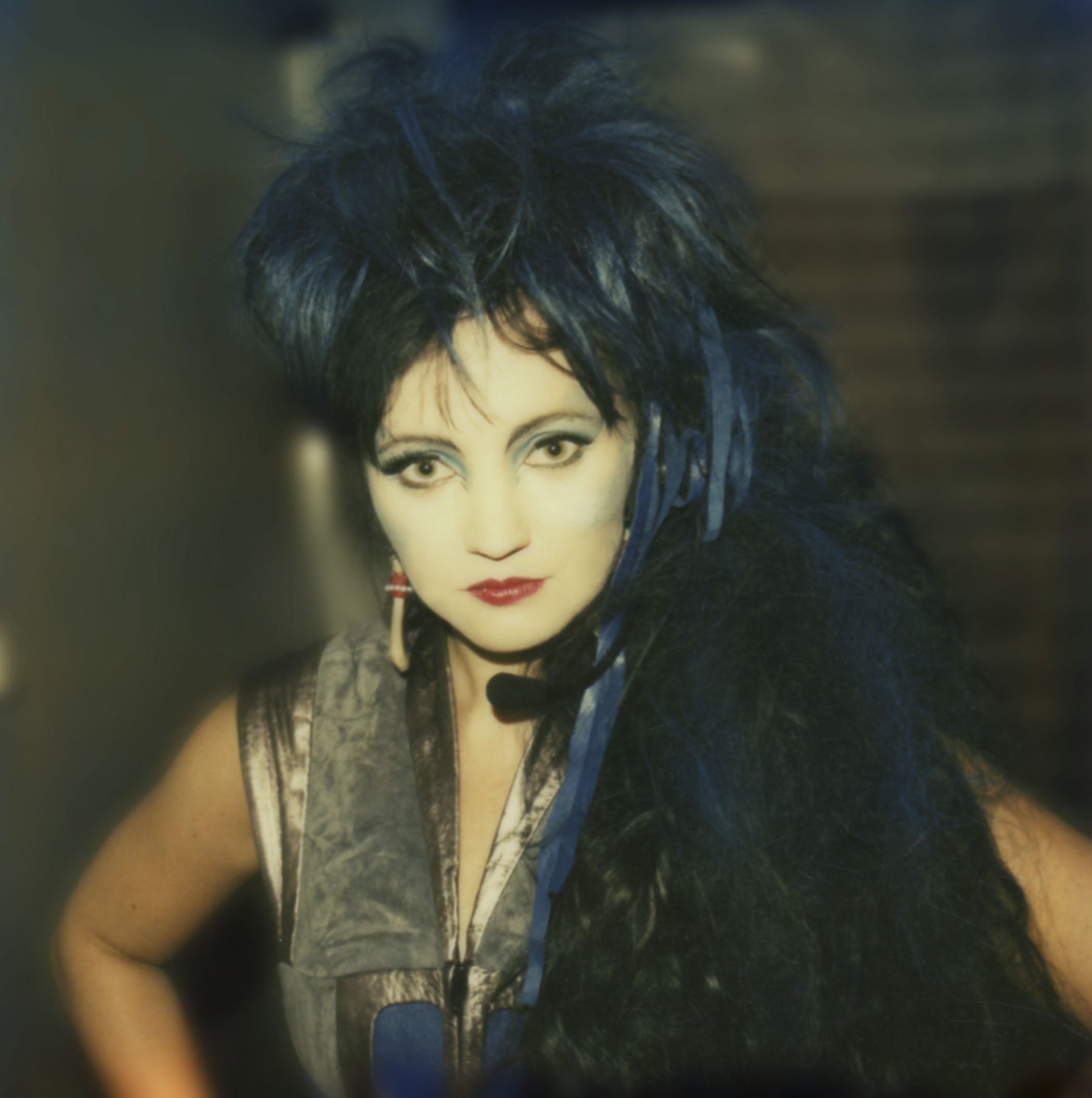 Barbie Wilde taken backstage in 1986 in Hungary during the filming of Grizzly II: The Predator (1987)